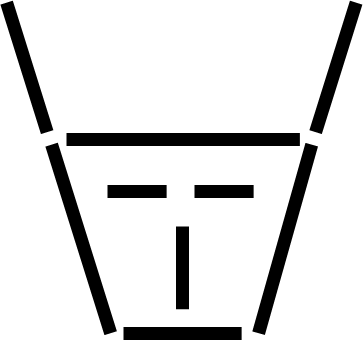 Schematic of the scoring system in the card game of German Schafkopf